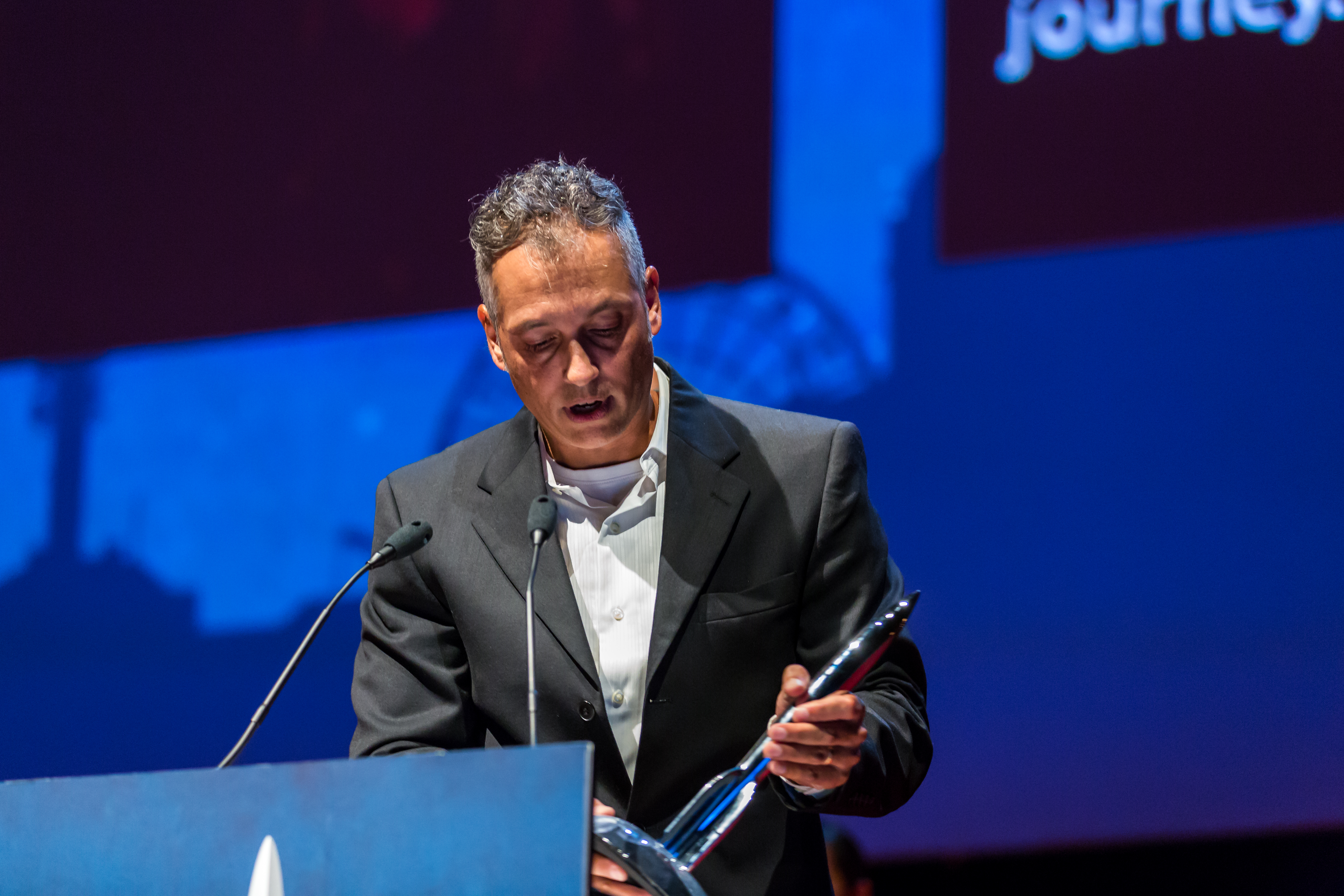 Hawk Ostby, Producer of Expanse, Winner for Best Dramatic Presentation, Short Form, at the Hugo Awards Ceremony, Worldcon.